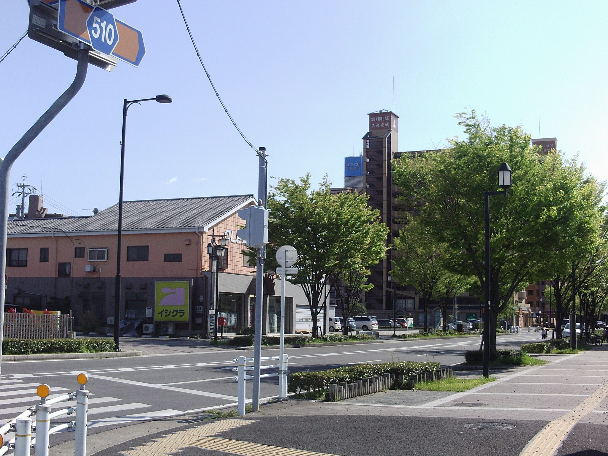 Ending Point of Aichi prefectural road No.510 in 2-Chome, Mikawaanjocho, Anjo, Aichi.